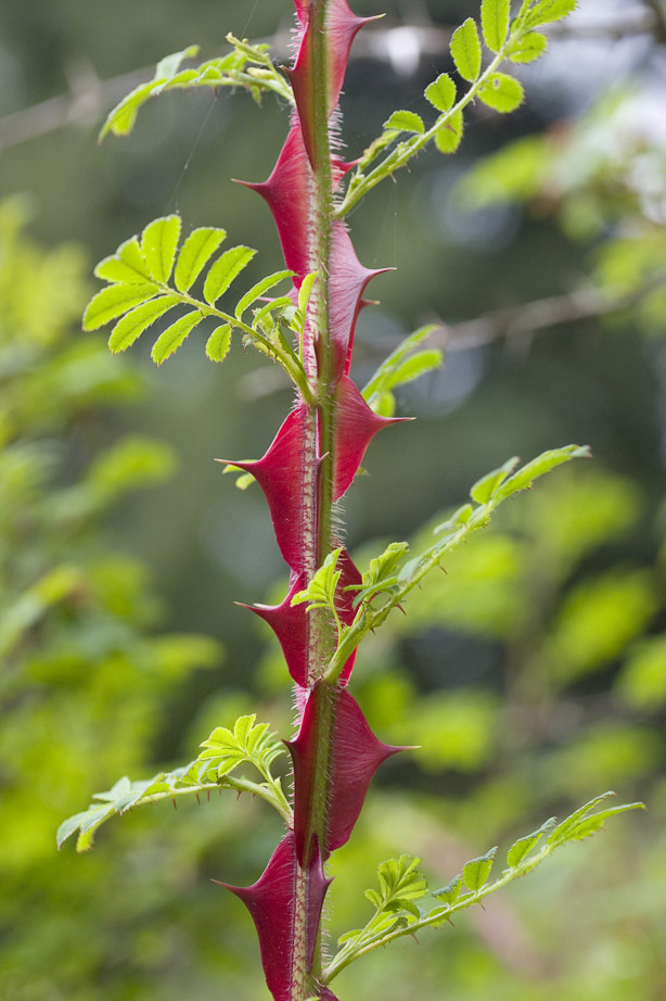 Rosa_omeiensis, Botanischer Garten der TU Darmstadt, Germany Synonyme: Rosa sericea Lindley f. aculeatoeglandulosa Focke Rosa sericea f. inermieglandulosa Focke Rosa sorbus H.Léveillé Stacheldrahtrose